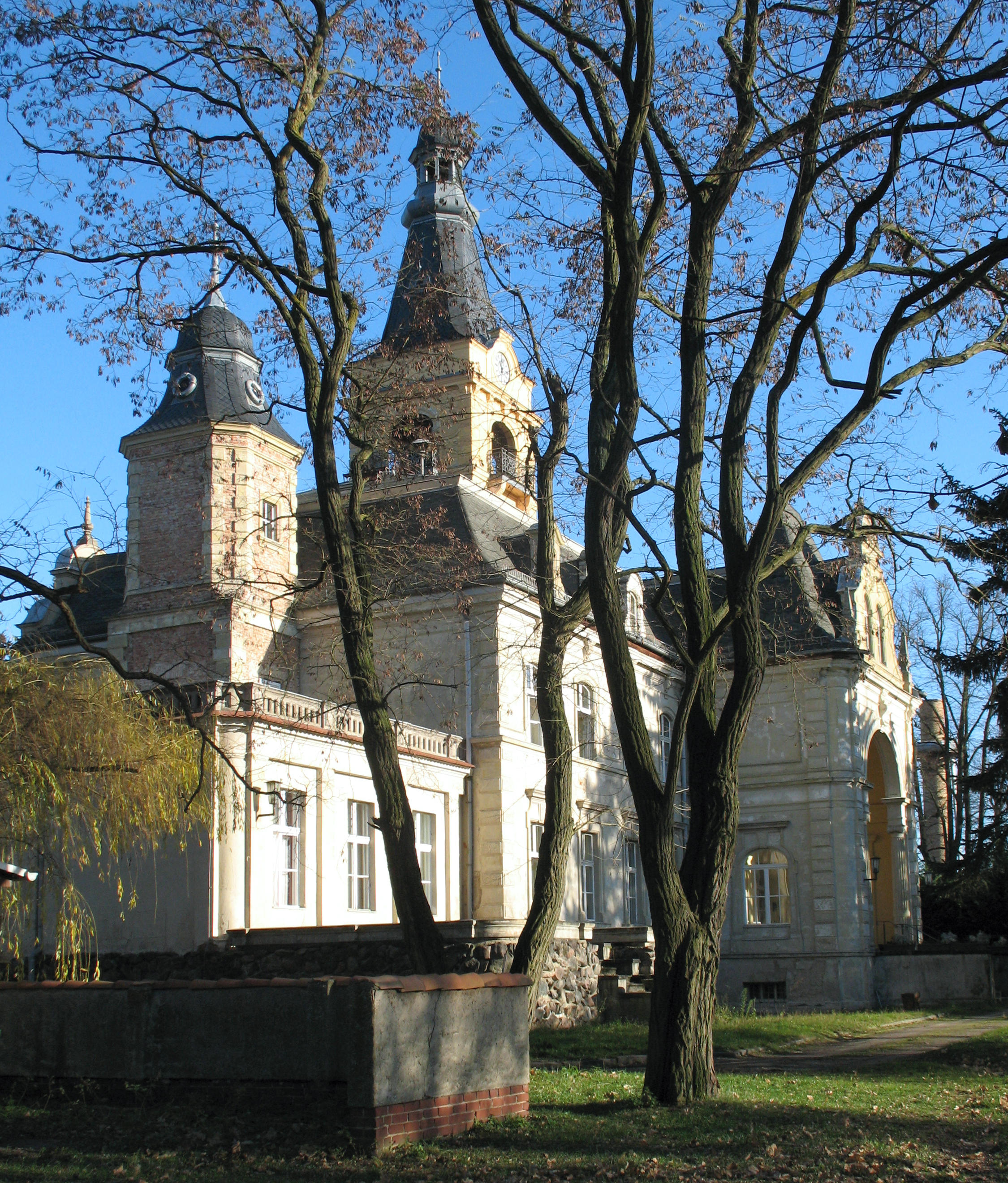 Castle in Stahnsdorf-Güterfelde in Brandenburg, Germany